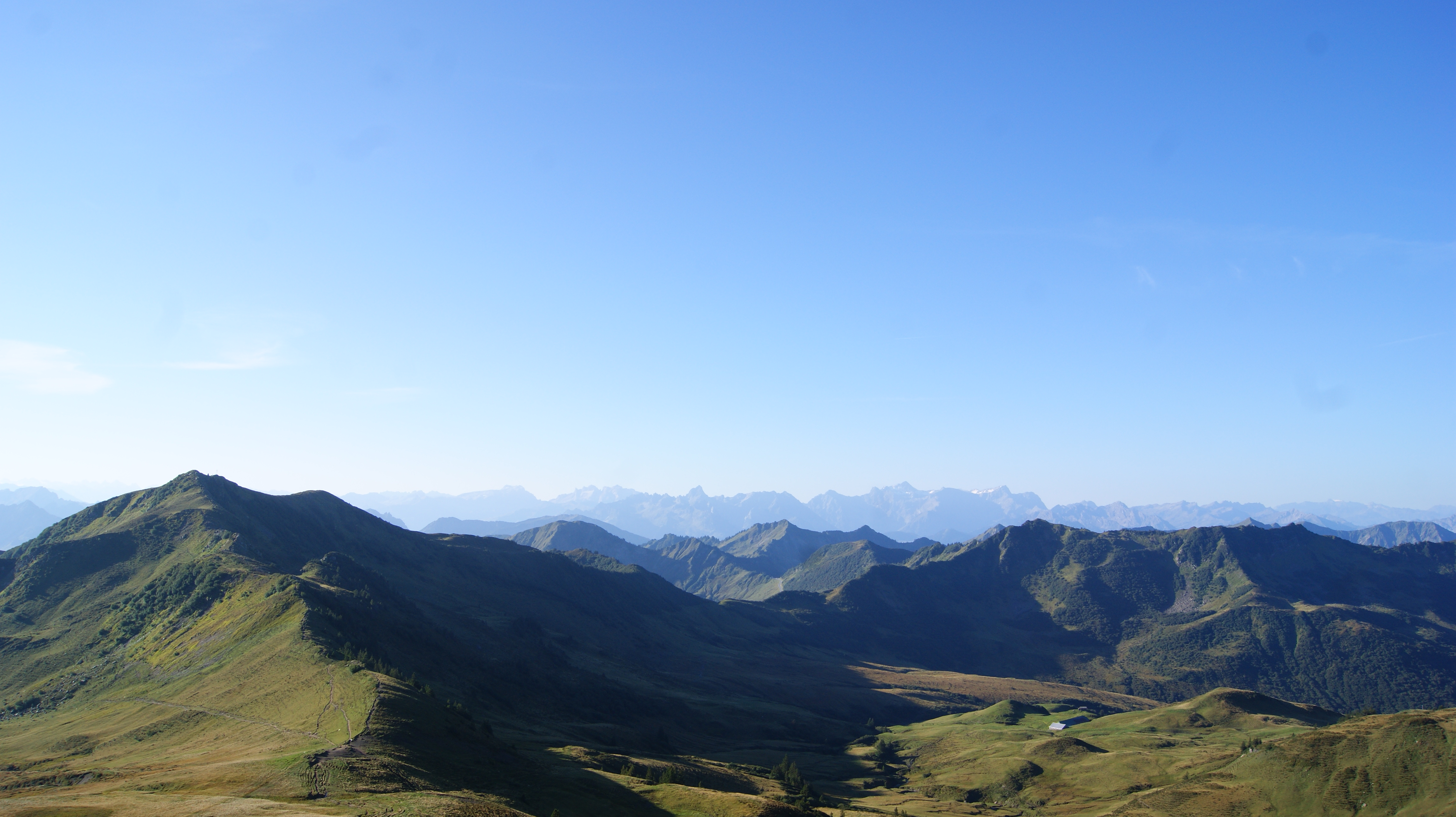 View from the Suenserokpf to the Portlakopf (left side, 1905 masl), Portlahorn (1910 masl), Alpe Suens, Furkajoch (1761 masl) etc.